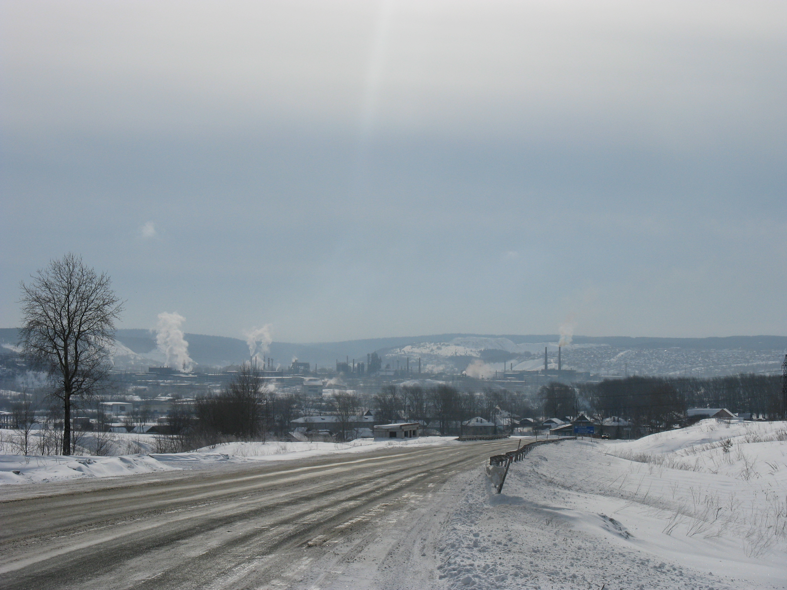 Panorama of Chusovoy Metallurgical Works